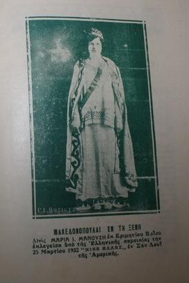 Maria Manoussi Miss Greece 1932